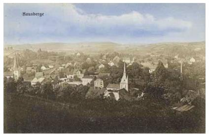 Porta Westfalica, Germany: View from the Jakobsberg over the local centre Hausberge, 1909